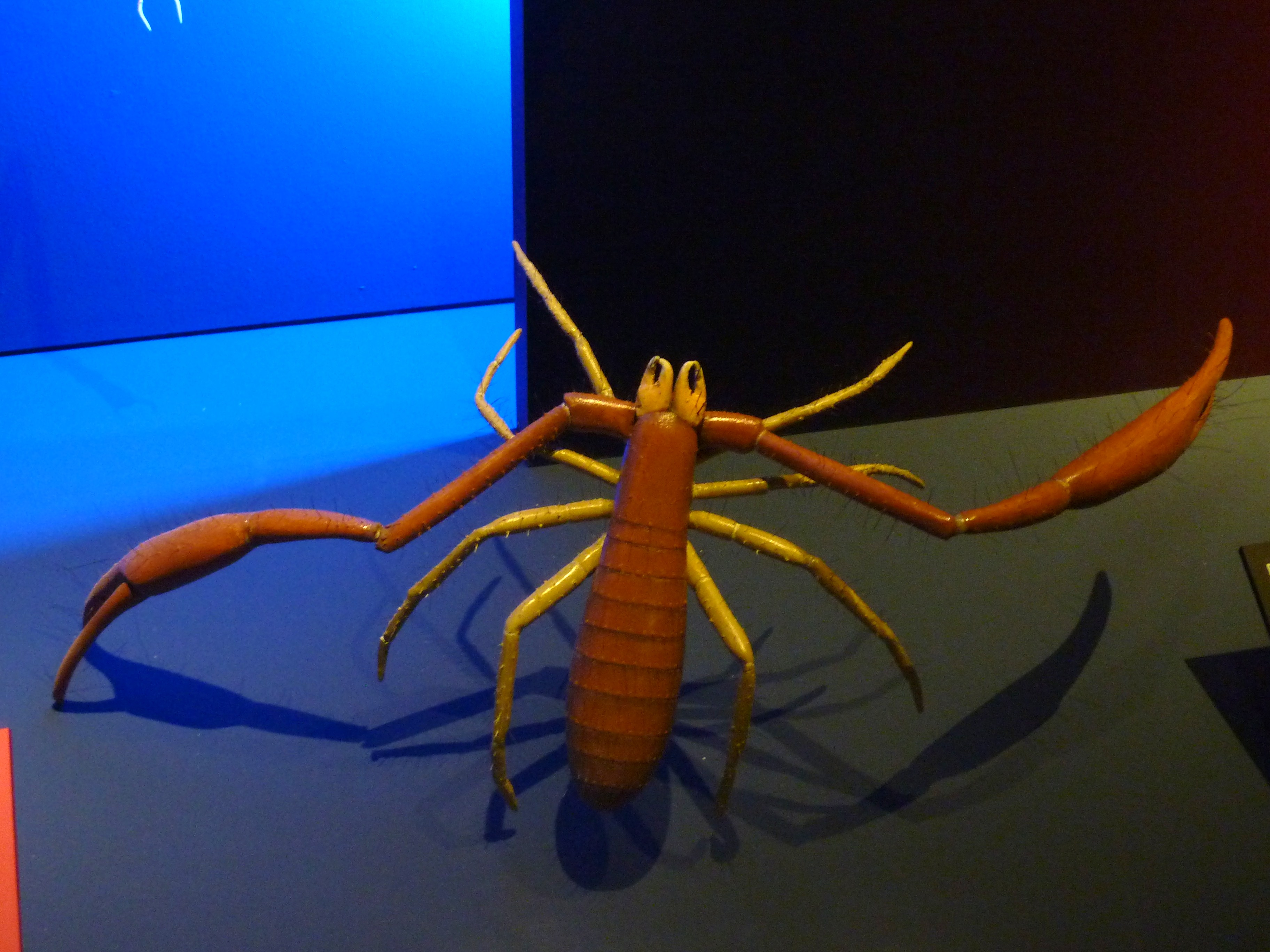 Pseudoblothrus strinatii